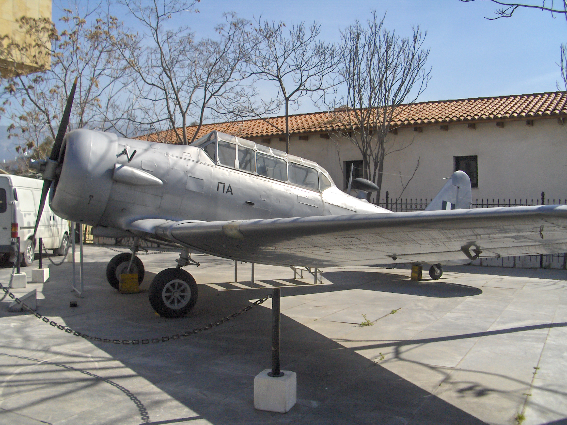 North American T-6 Texan. Exhibit at the War Museum in Athens.